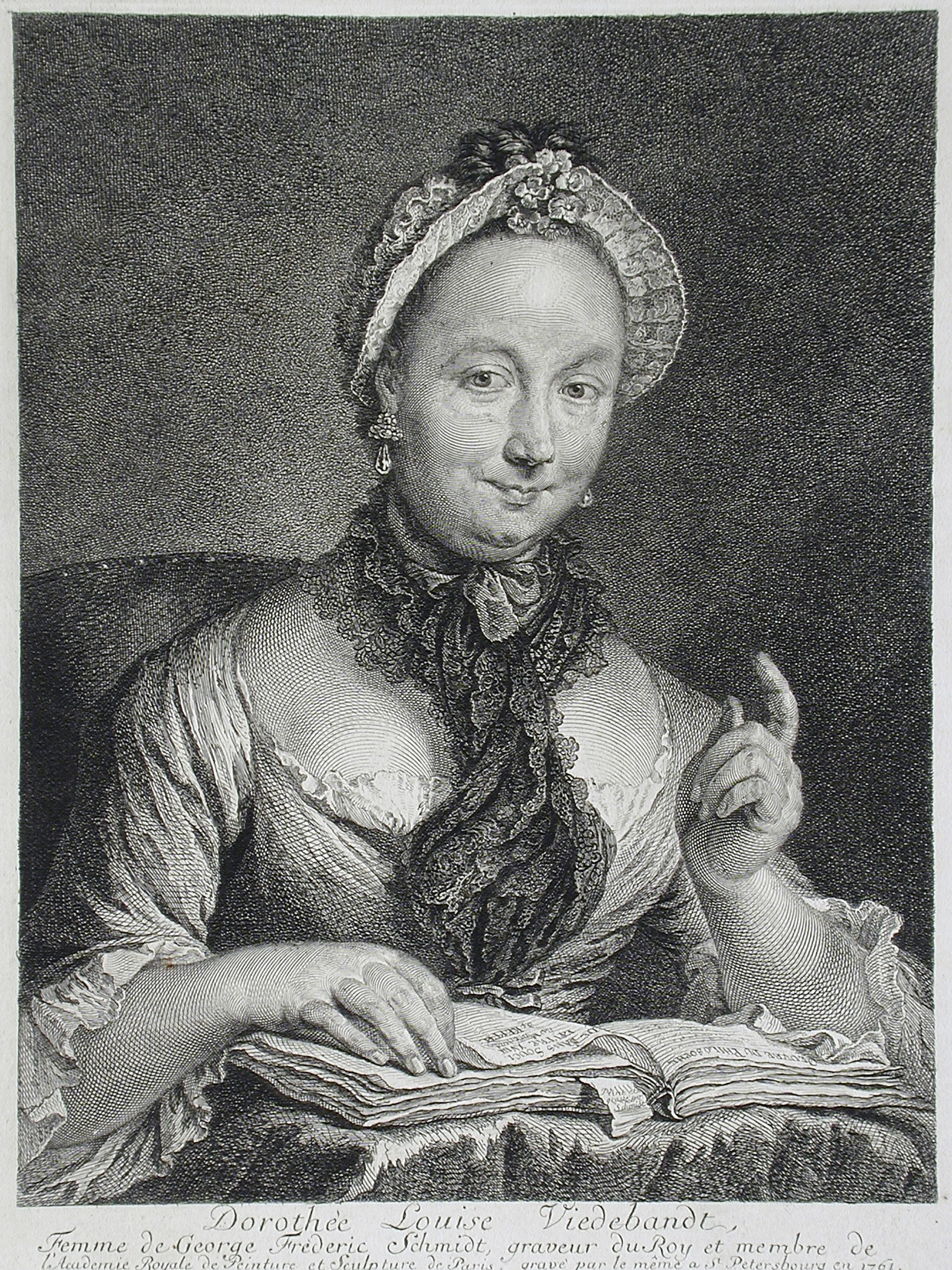 Germany, 1761 Prints; engravings Engraving Sheet: 11 7/16 x 9 7/8 in. (29.05 x 25.08 cm); plate: 9 1/4 x 7 3/16 in. (23.5 x 18.26 cm) Gift of Mr. and Mrs. Theodore Harris (AC1994.9.15) Prints and Drawings